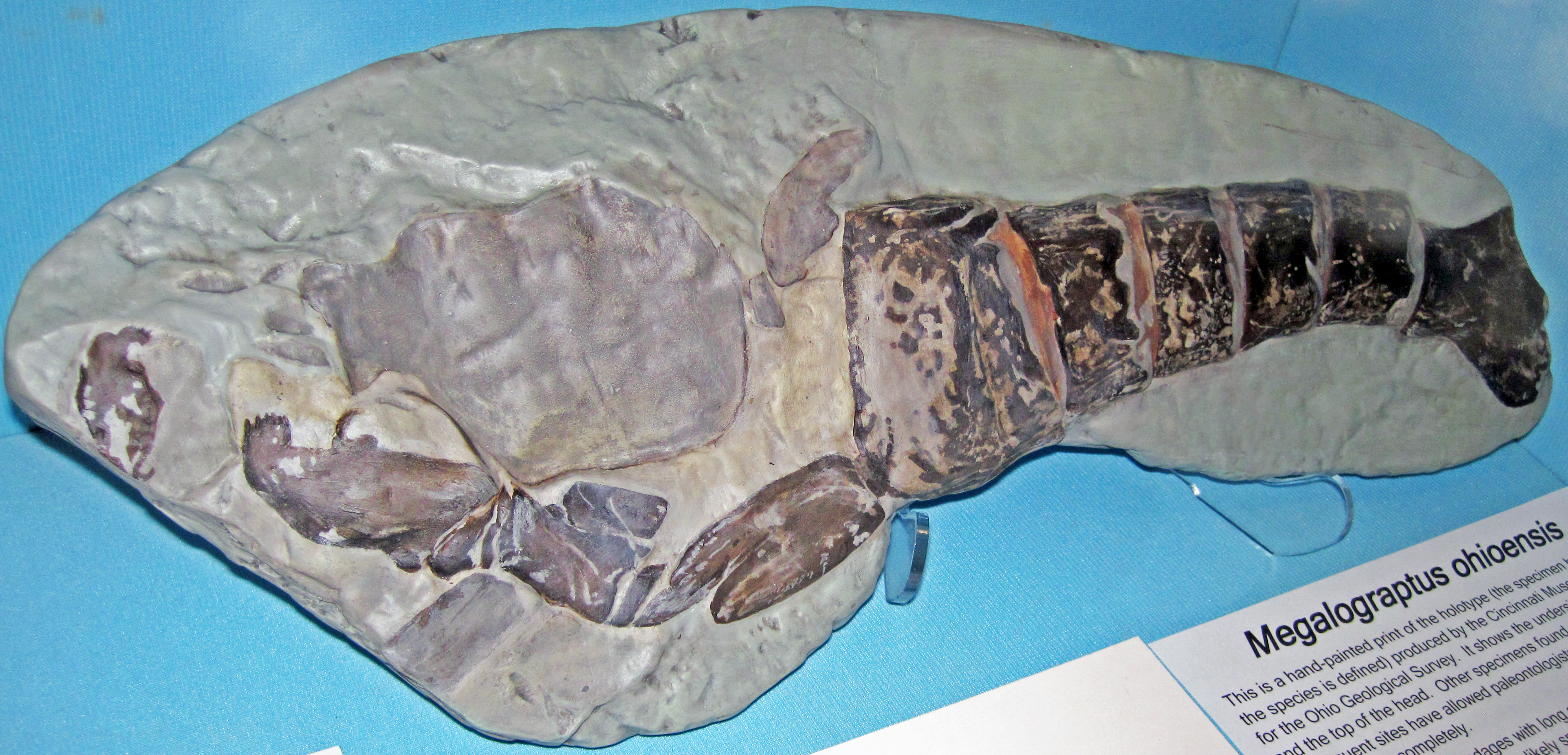 Megalograptus ohioensis Caster & Kjellesvig-Waering, 1955 - fossil eurypterid from the Ordovician of Ohio, USA. (replica; Orton Geology Museum, Ohio State University, Columbus, Ohio, USA) The eurypterids, or sea scorpions, are an extinct group of chelicerate arthropods. They have an elongated, scorpion-like body that could reach enormous sizes (2.5 to 3 meters!), with a nonmineralizing exoskeleton composed of chitinous material. They are generally found in shallow to very shallow water marine and marginal marine facies. From exhibit signage: Megalograptus ohioensis This is a hand-painted [replica] of the holotype (the specimen by which the species is defined) produced by the Cincinnati Museum Center for the Ohio Geological Survey. It shows the underside of the body and the top of the head. Other specimens found at the same and subsequent sites have allowed paleontologists to reconstruct the animal more completely. The large front appendages with long spines may have been used to rake the sea floor for prey - likely smaller invertebrates including trilobites. With the remains were found coprolites filled with chewed pieces of eurypterids. Megalograptus may have preyed on other members of its own species or, like some arthropods today, maybe females ate the males after mating. Classification: Animalia, Arthropoda, Chelicerata, Merostomata, Xiphosura, Eurypterida, Megalograptidae Stratigraphy: Elkhorn Formation, upper Richmondian Stage, uppermost Cincinnatian Series, upper Upper Ordovician Locality: near the town of Manchester, Adams County, far-southern Ohio, USA See info. at